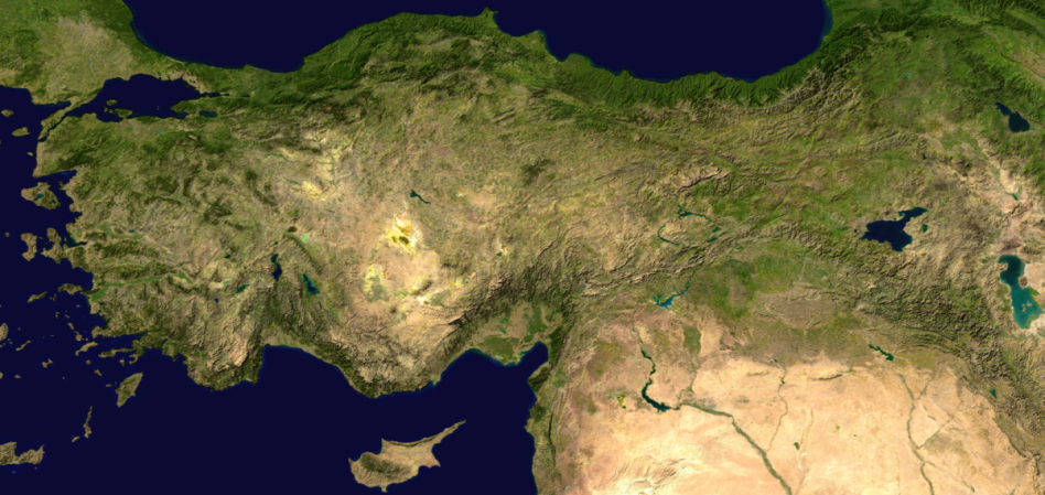 composite satellite image of Anatolia (Blue Marble)